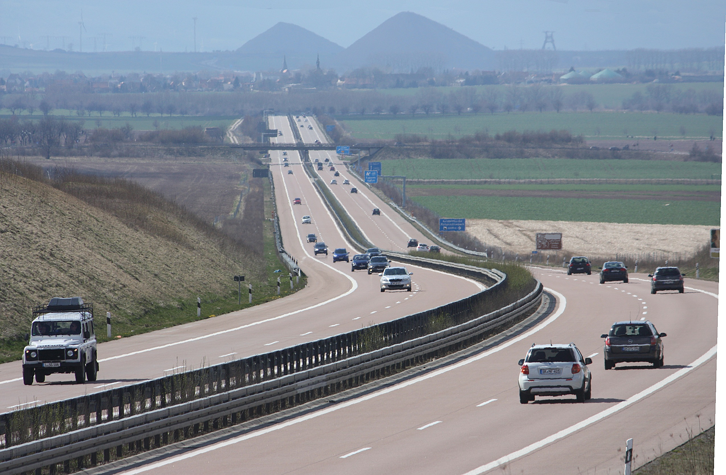 Hornburg (Seegebiet Mansfelder Land), motorway A38, view to Einsdorf